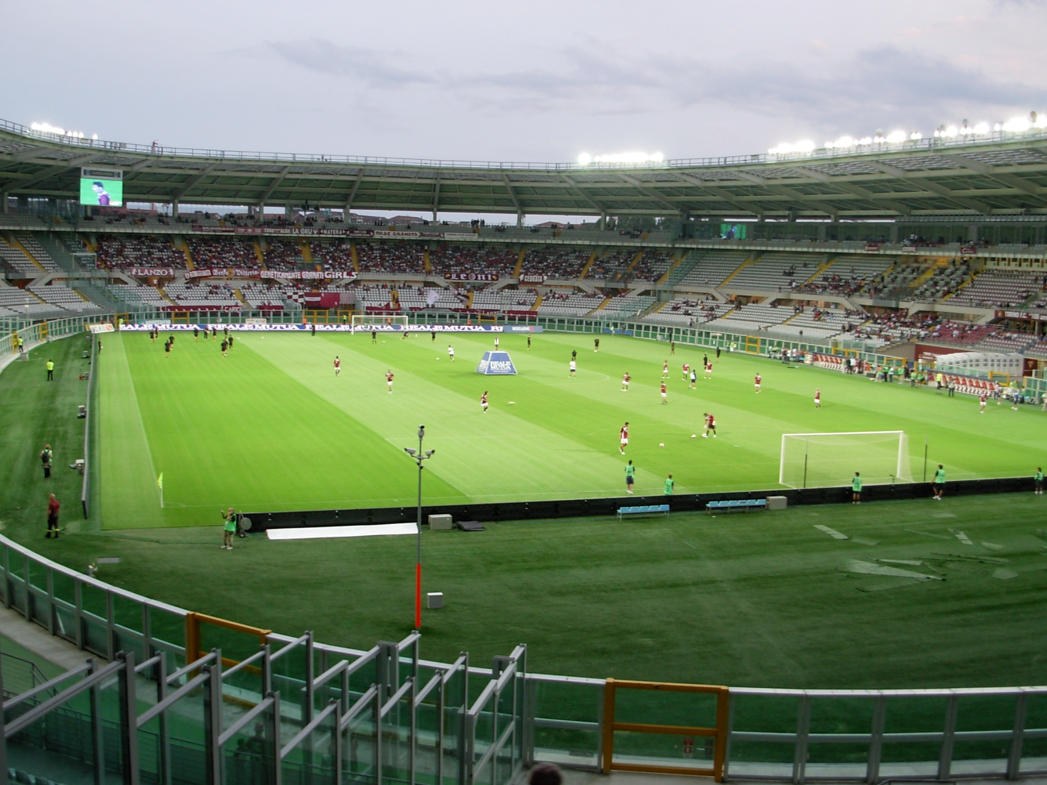 Turin (Italy), Olympic Stadium. August 19, 2007. Torino FC v CA Peñarol (0 - 0, 4 - 3 on penalties), exhibition game ("Trofeo del Centenario").